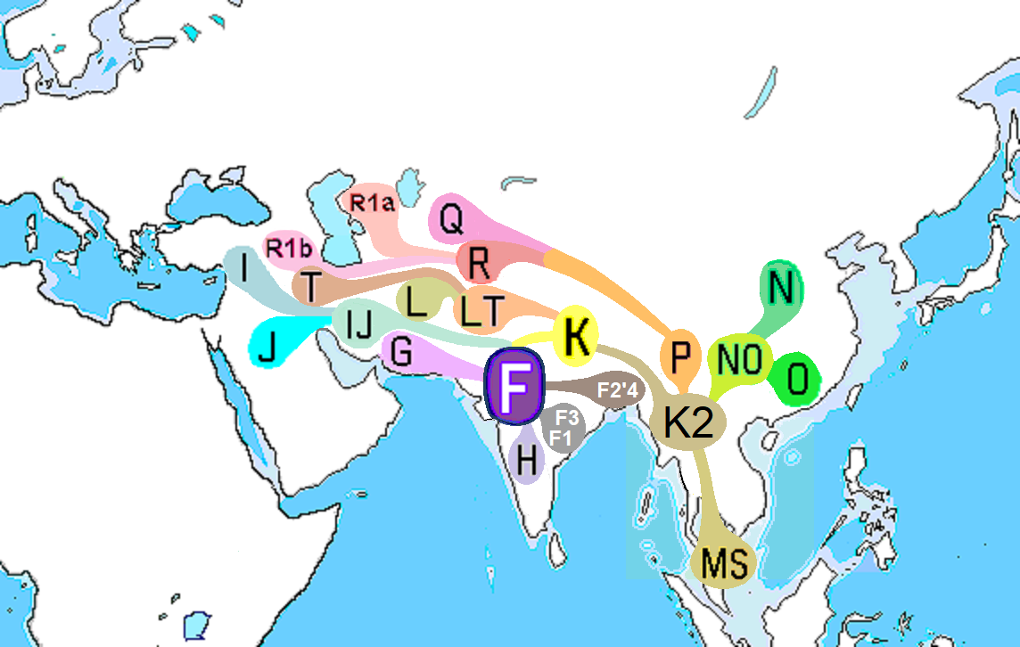 Spread of haplogroup F (Y-chromosome) according to an indostanic origin.